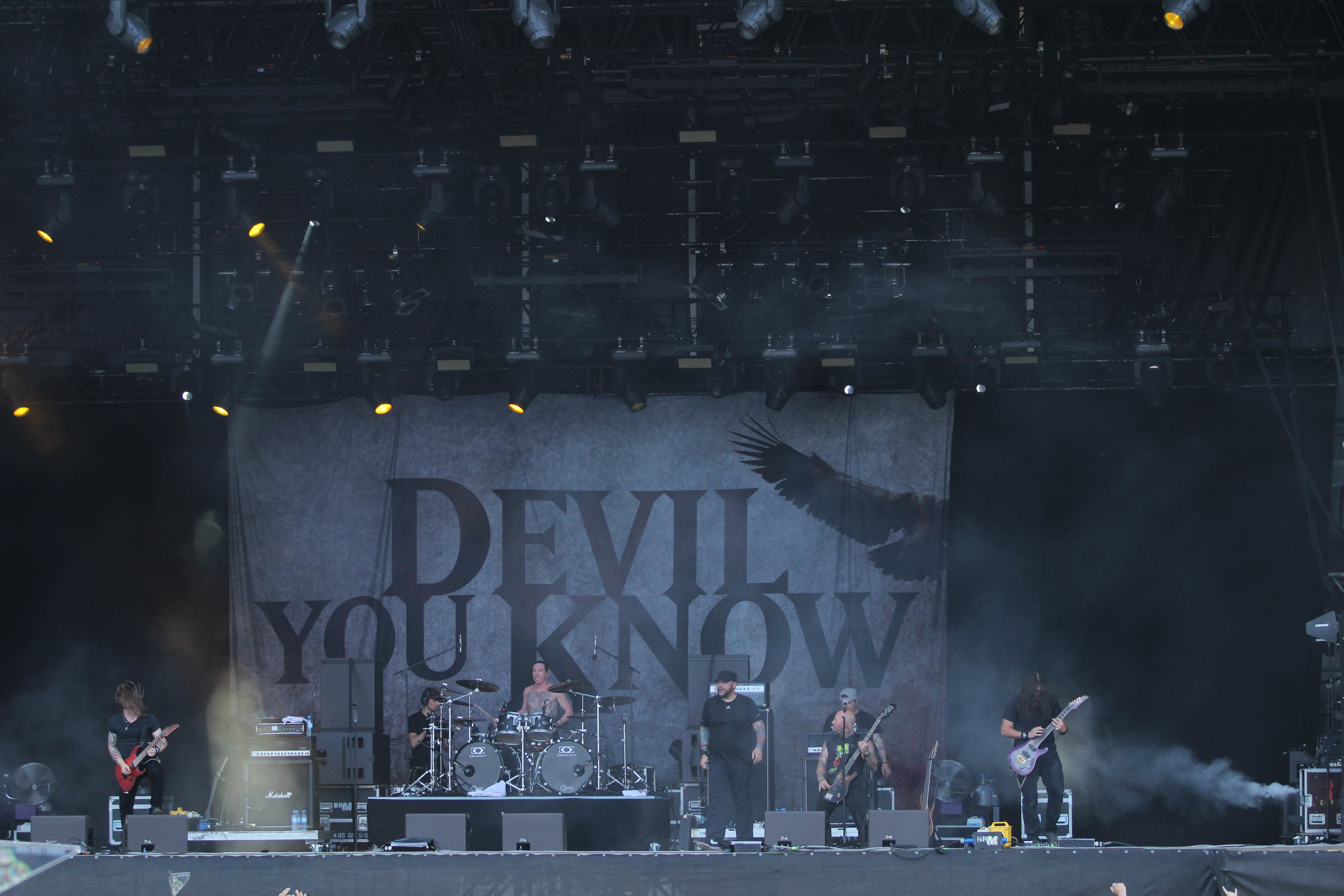 The American metalcore band Devil You Know at the With Full Force festival 2014 in Roitzschjora/Germany